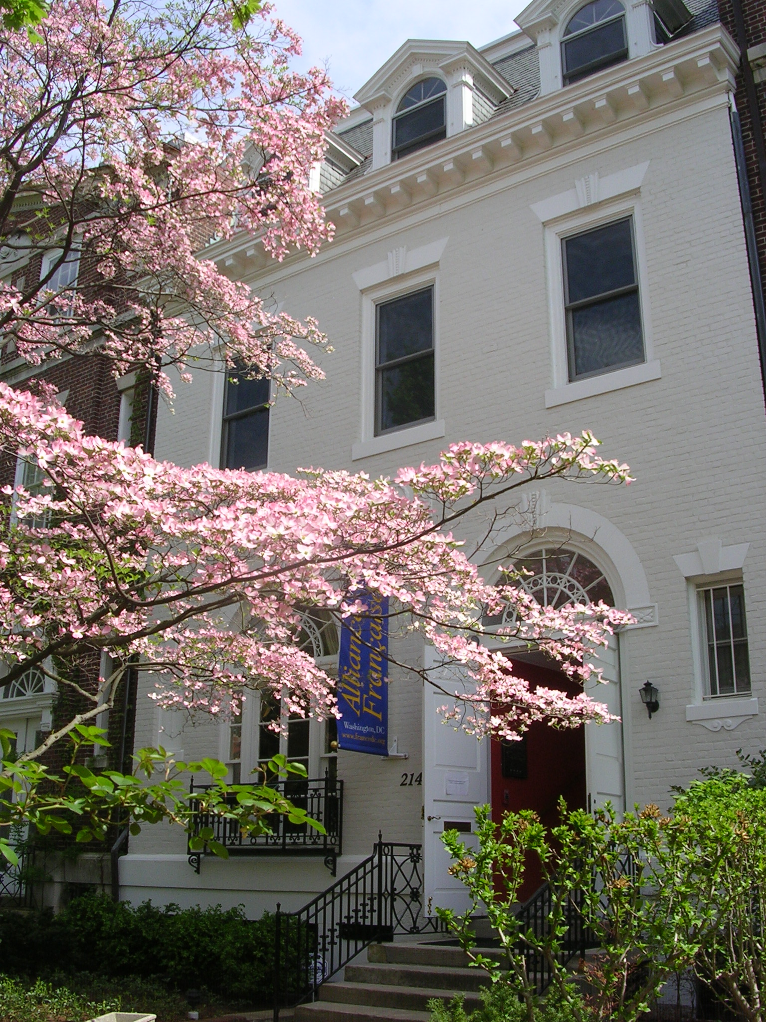 House of Alliance Francaise de Washington